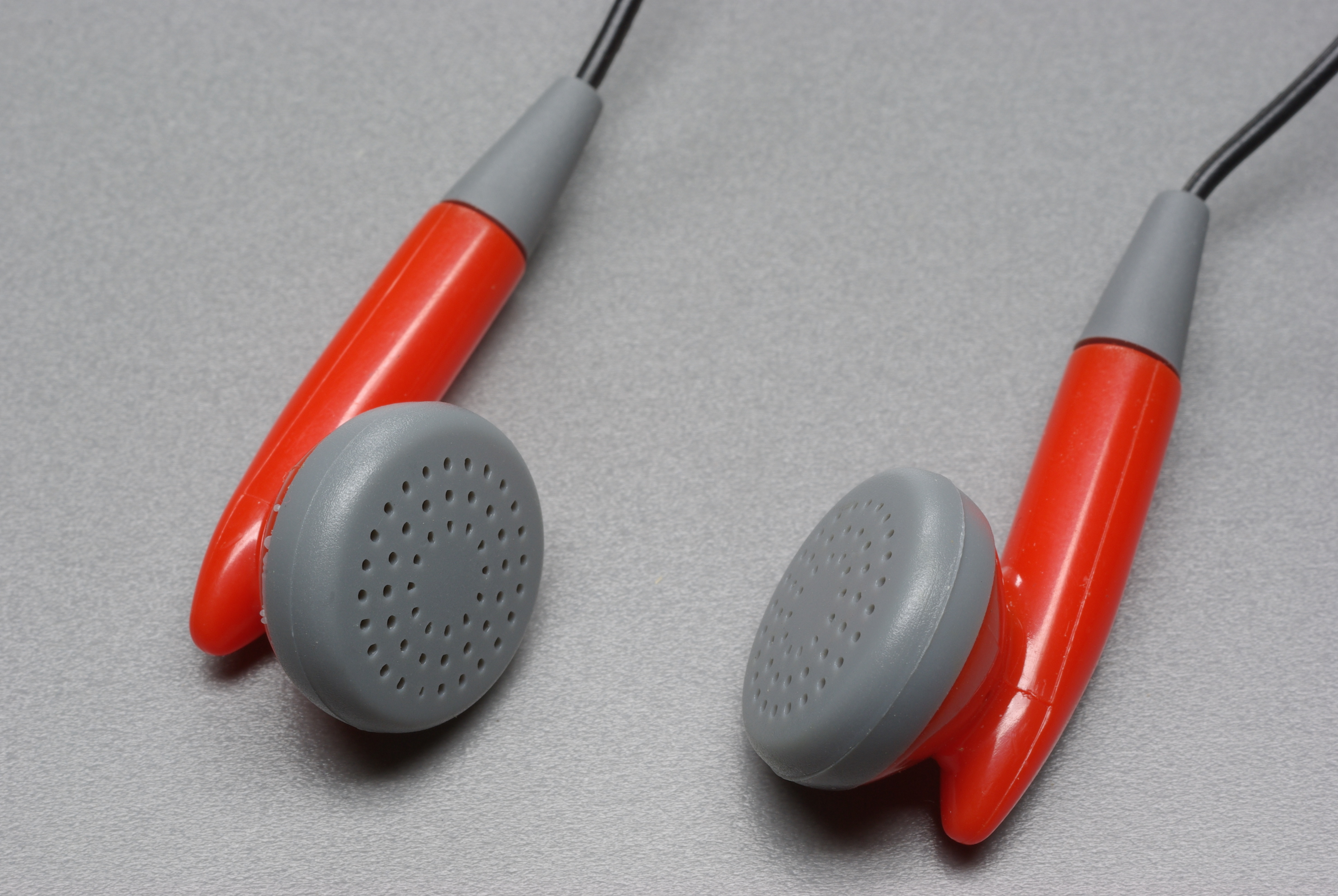 Earphones